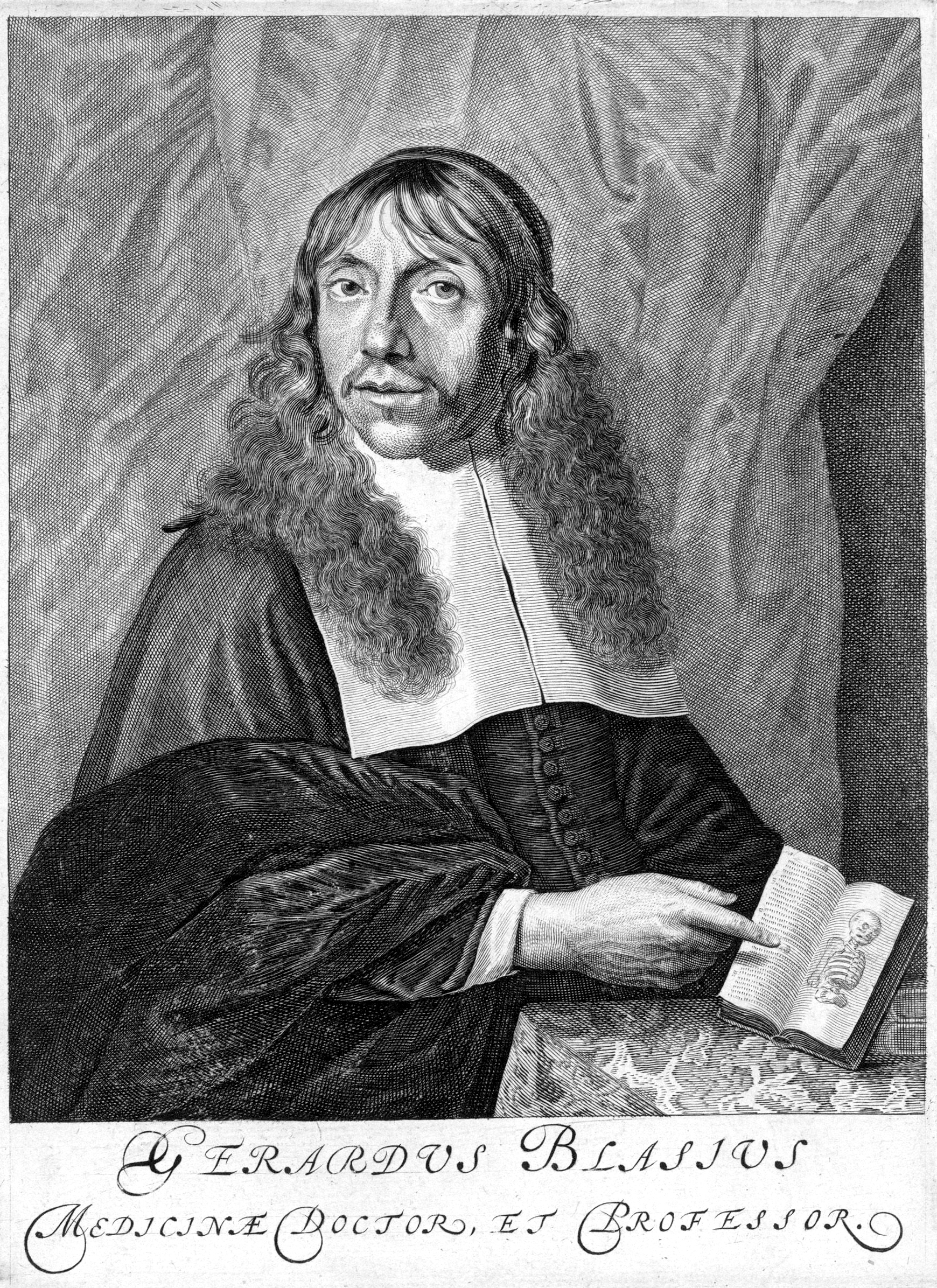 Gerardus Leonardus Blasius (1625-1695), physician and professor in medicine